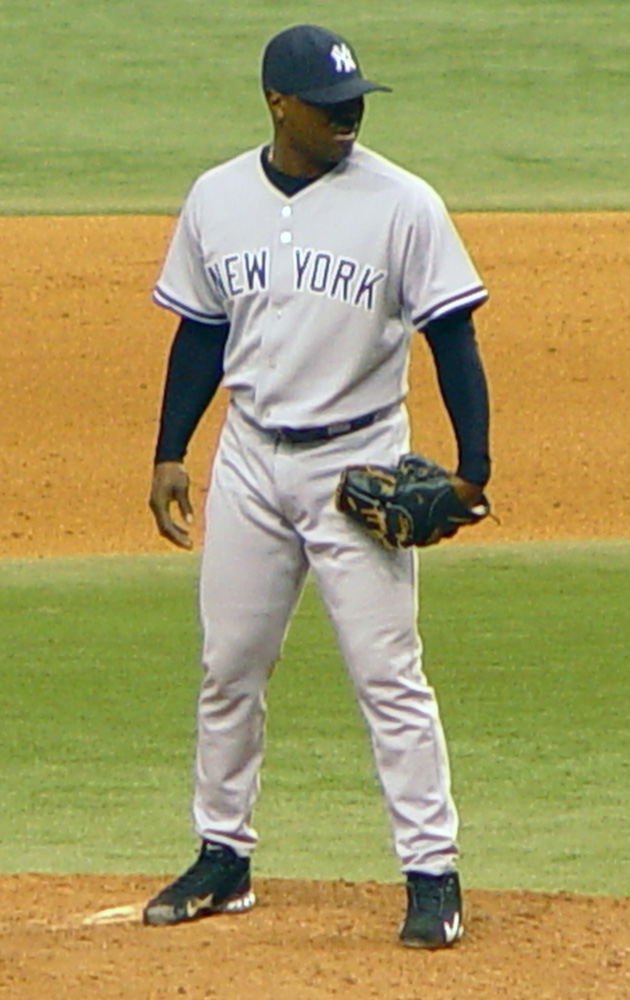 Relief pitcher Tom Gordon of the New York Yankees. 23:42, 21 September 2005 . . Googie man . . 630×1000 (206 KB)